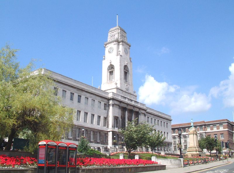 Barnsley Town Hall in central Barnsley, South Yorkshire, England.